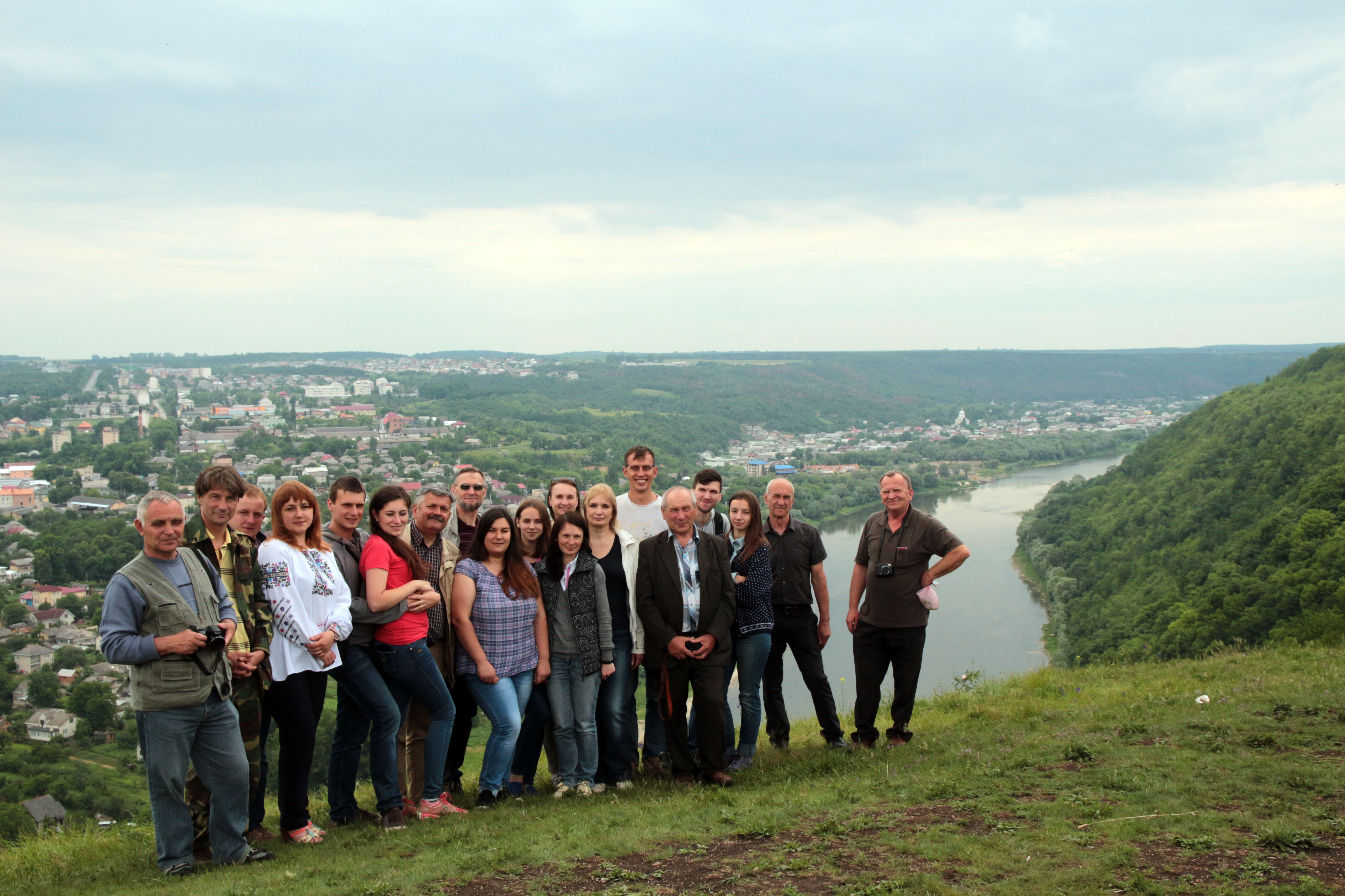 Participants of X Lviv Entomological School in Zalishchyky town